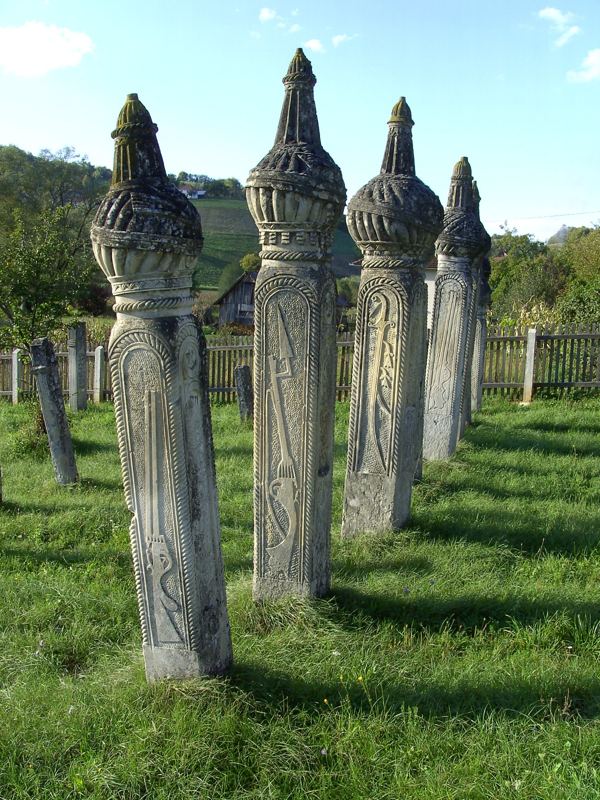 Muslim graveyard in the town of Pećigrad, BiH